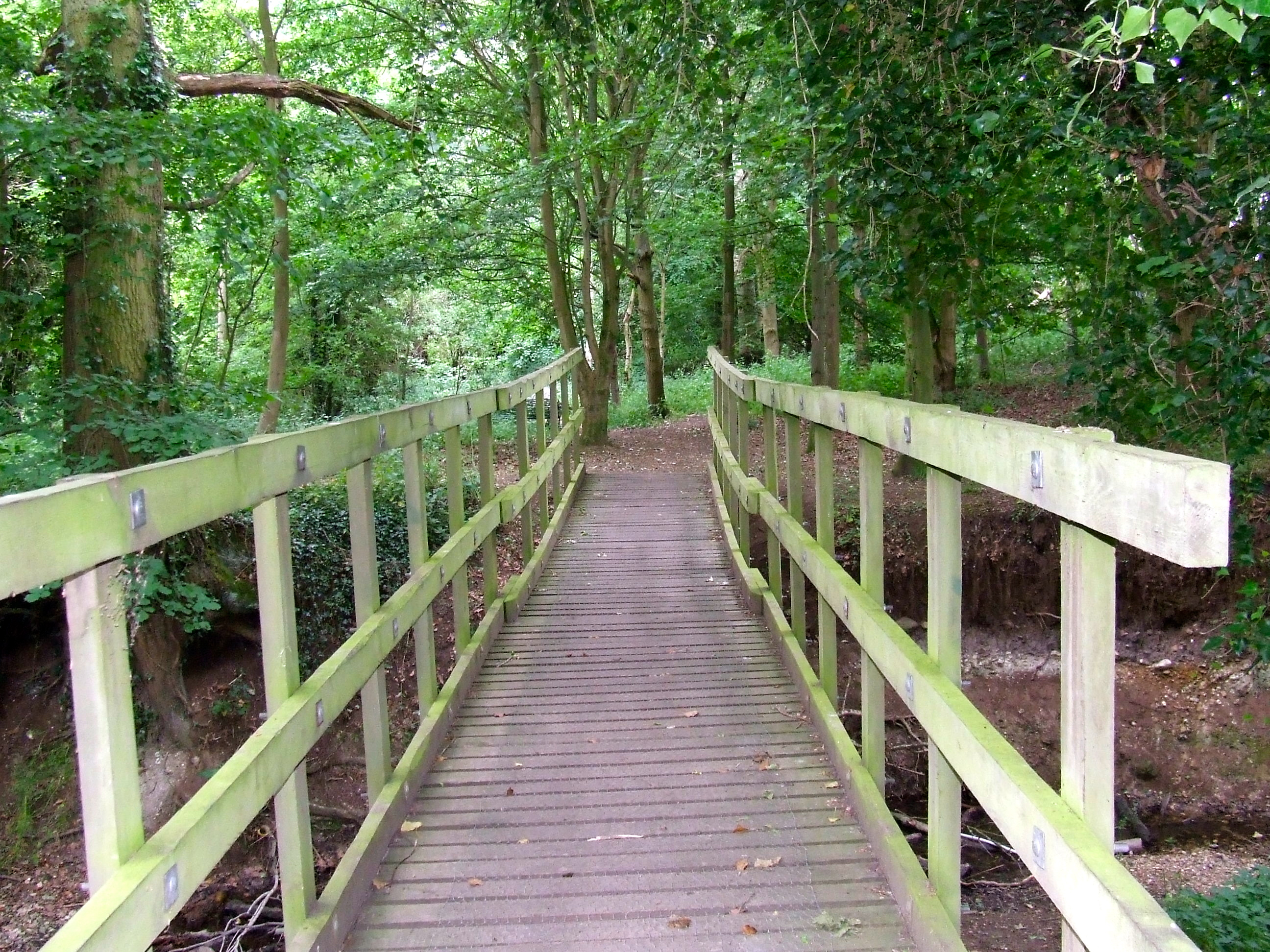 Footbridge leading into Simon's Wood, a small woodland area behind the Jubilee Field in Clavering, Essex